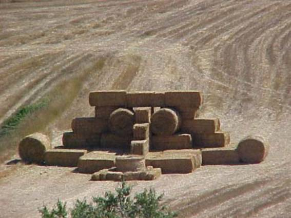 Escultures de palla als camps de la Guàrdia Pilosa